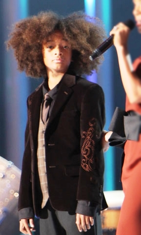 Jaden Smith at The Nobel Peace Prize Concert 2009 Photo: Harry Wad